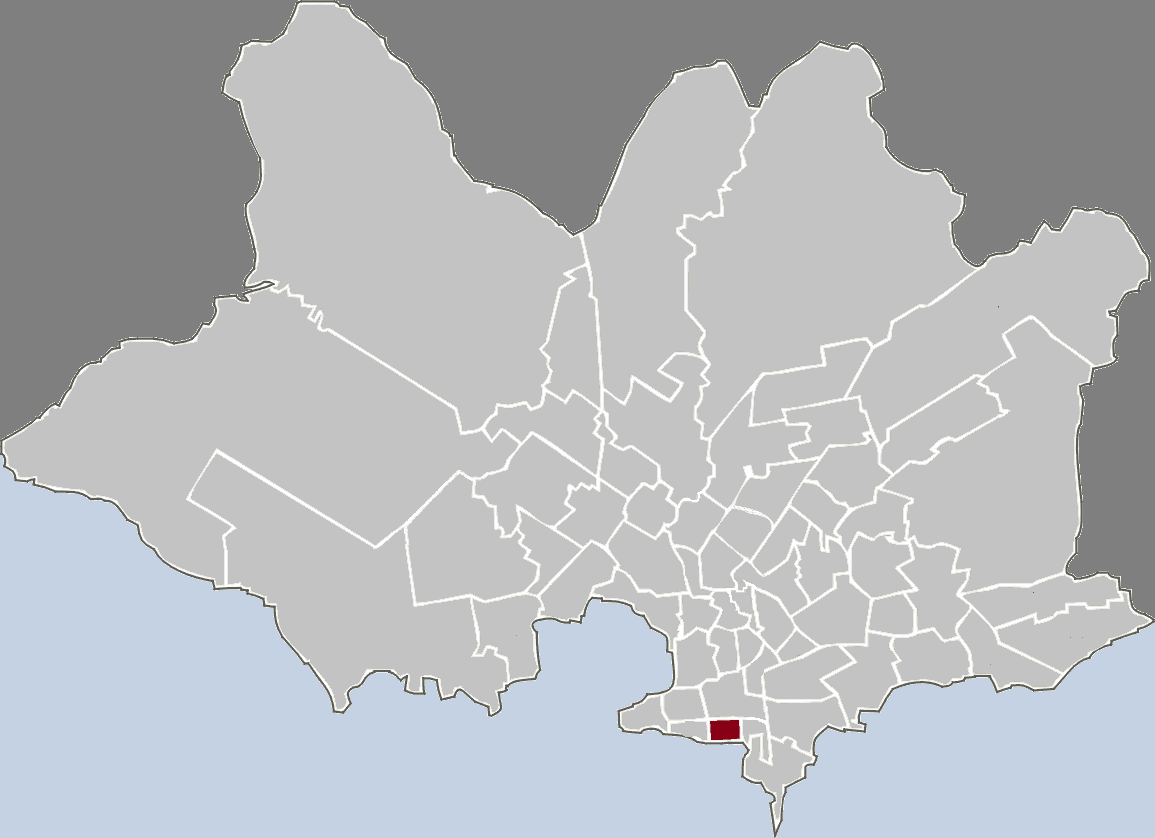 Map highlighting the given barrio in Montevideo.